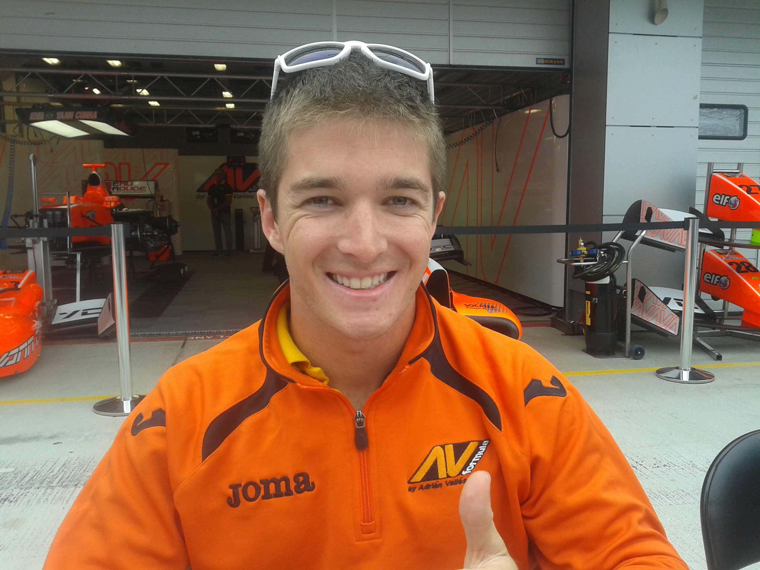 Yann Cunha at Moscow Raceway, 22 June 2013